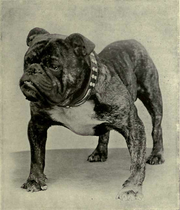 Champion Rodney Stone, Bulldog. The first Bulldog to be sold for £1000.